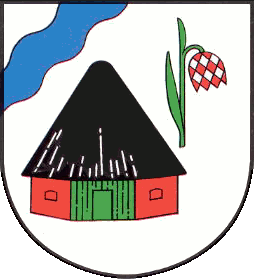 Coat of arms of the municipality Seestermühe in Schleswig-Holstein, Germany.